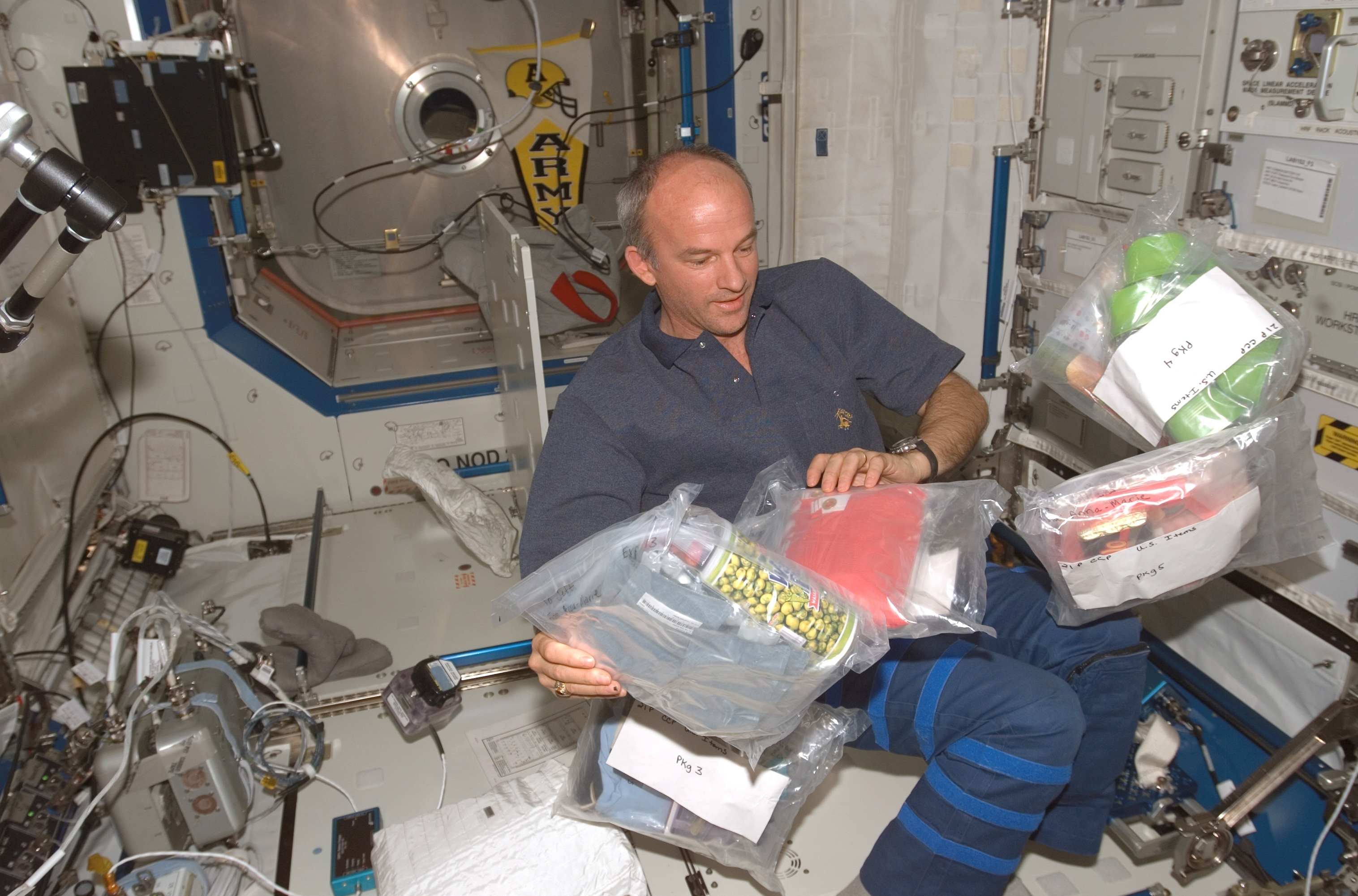 NASA Image ISS013E13224 - Flight engineer Jeffrey Williams unpacks bags containing food and containers in the U.S. Laboratory, Destiny hatch area. A balanced meal is important to the overall nutrition and health of the crew during long duration exploration. (